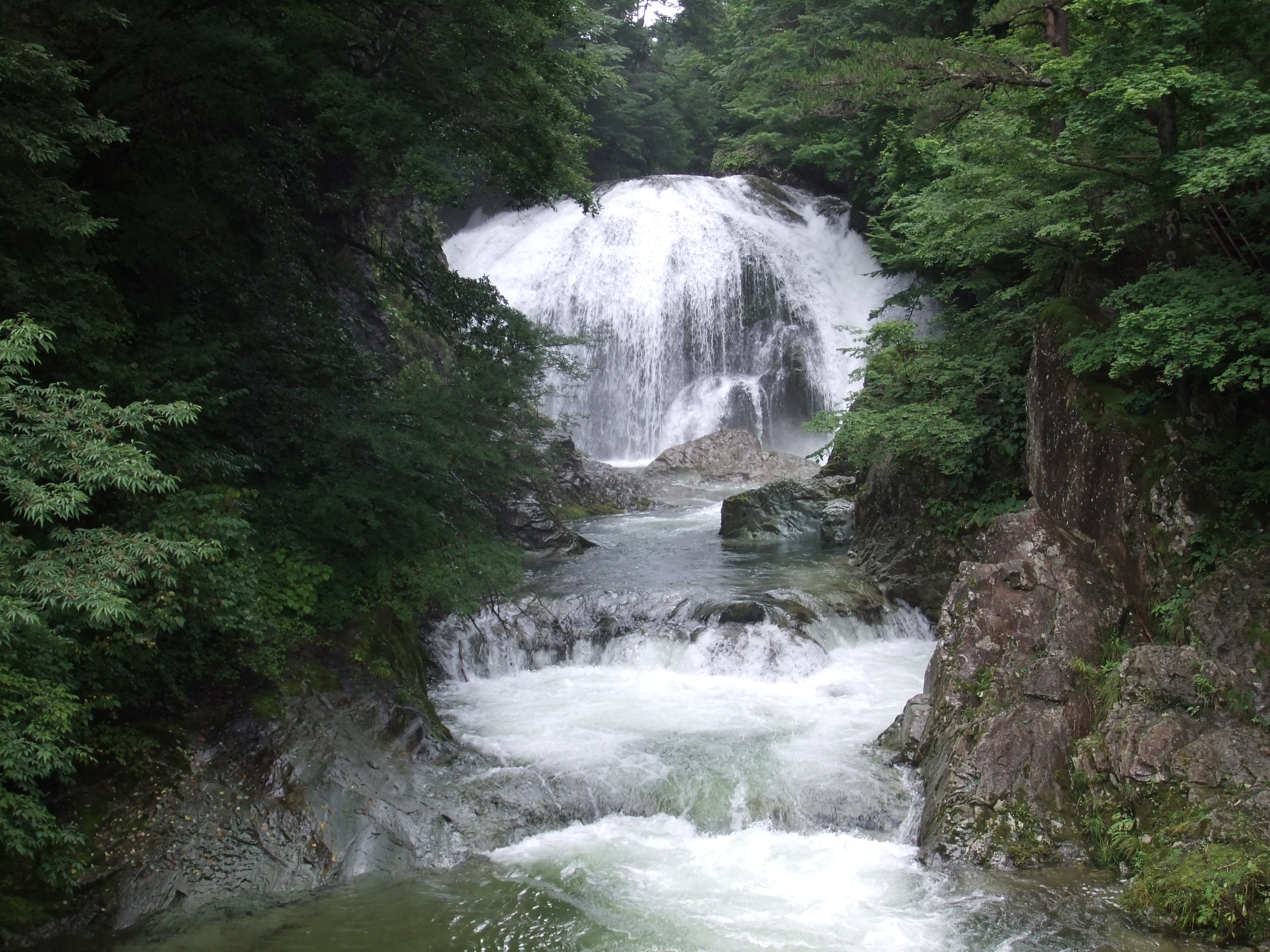 Sekiyama Ōtaki Waterfalls in Higashine, Yamagata Prefecture